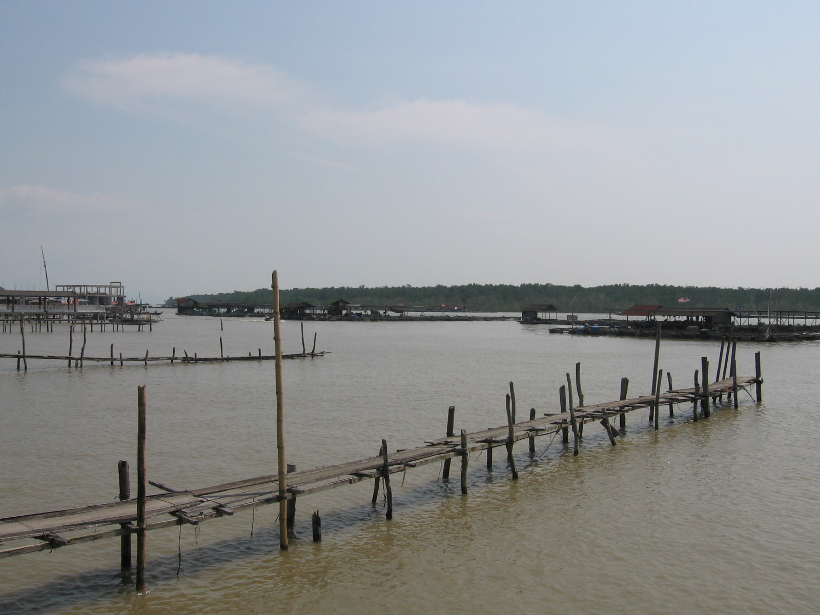 Fishing village of Kukup, with Pulau Kukup in the background. Taken by myself in Sep 2005.